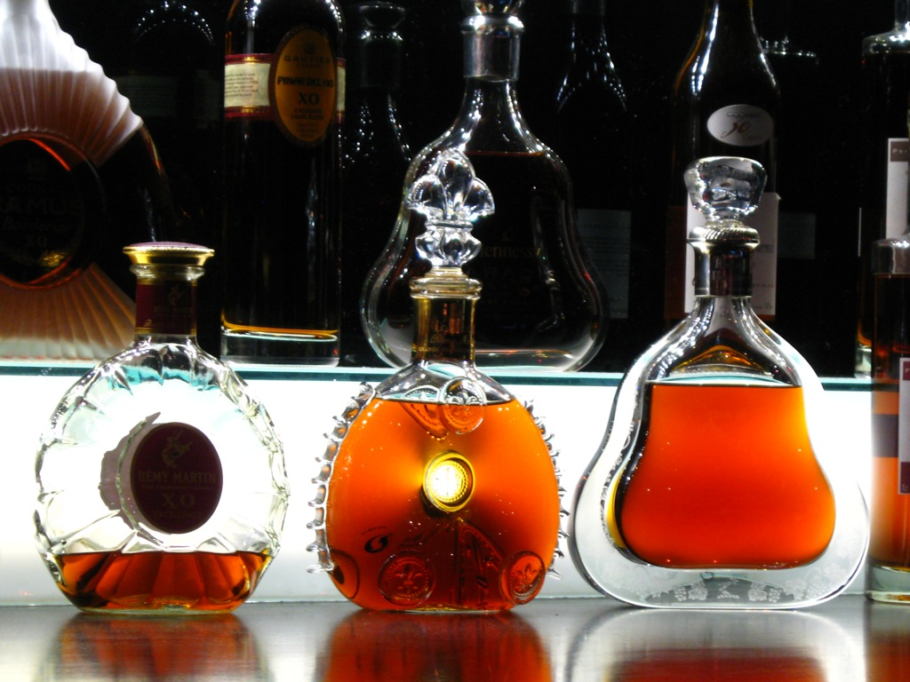 Remy Martin XO - Remy Martin Louis XIII - Hennessy Richard